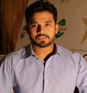 Azhar Ali, Pakistani cricketer in 2017.